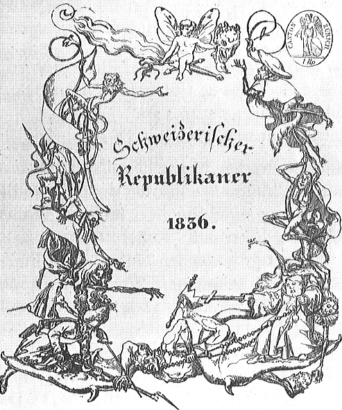 Titlepage of the radical periodical "Schweizerischer Republikaner" 1836. Graphic work by Martin Disteli (1802-1844)